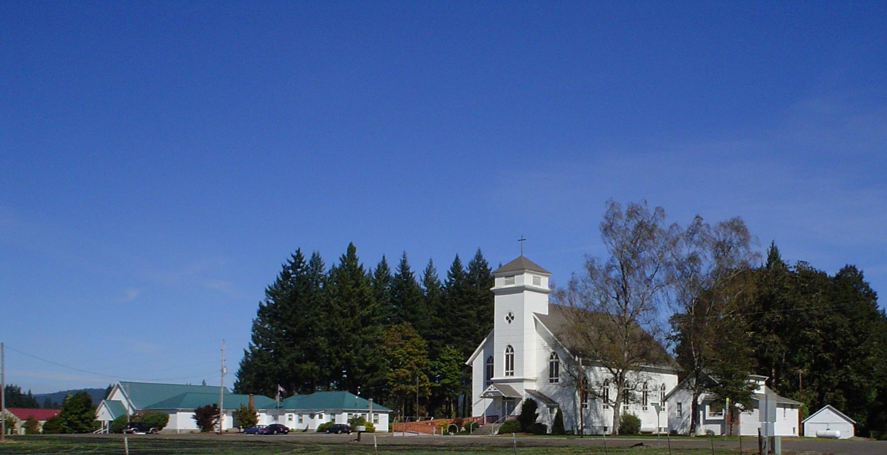 Lourdes Public Charter School (l); Our Lady of Lourdes Catholic Church (r); Jordan, Oregon